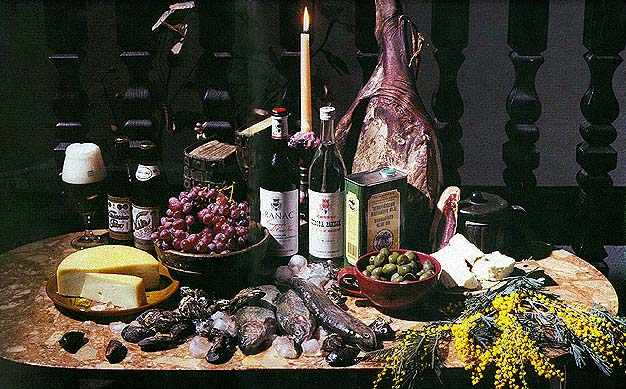 Foods from Montenegro. Related: Montenegrin cuisine. Self-made